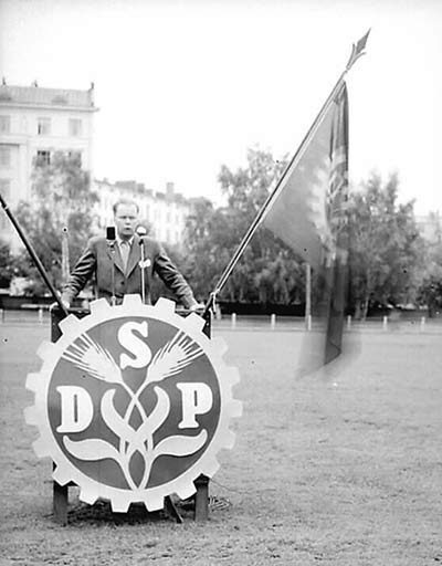 Social democratic leader Aarre Simonen addressing a political rally at Tampere in 1951